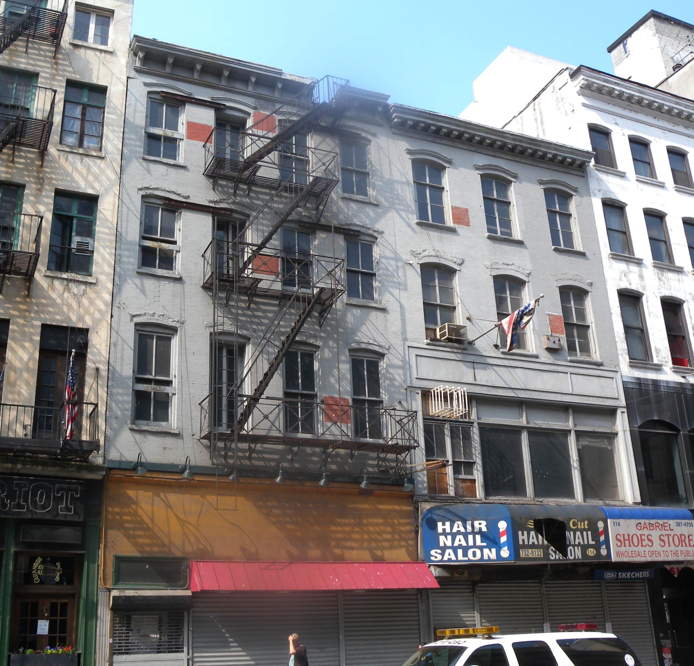 Looking southwest at 112 Chambers Street on a sunny morning.